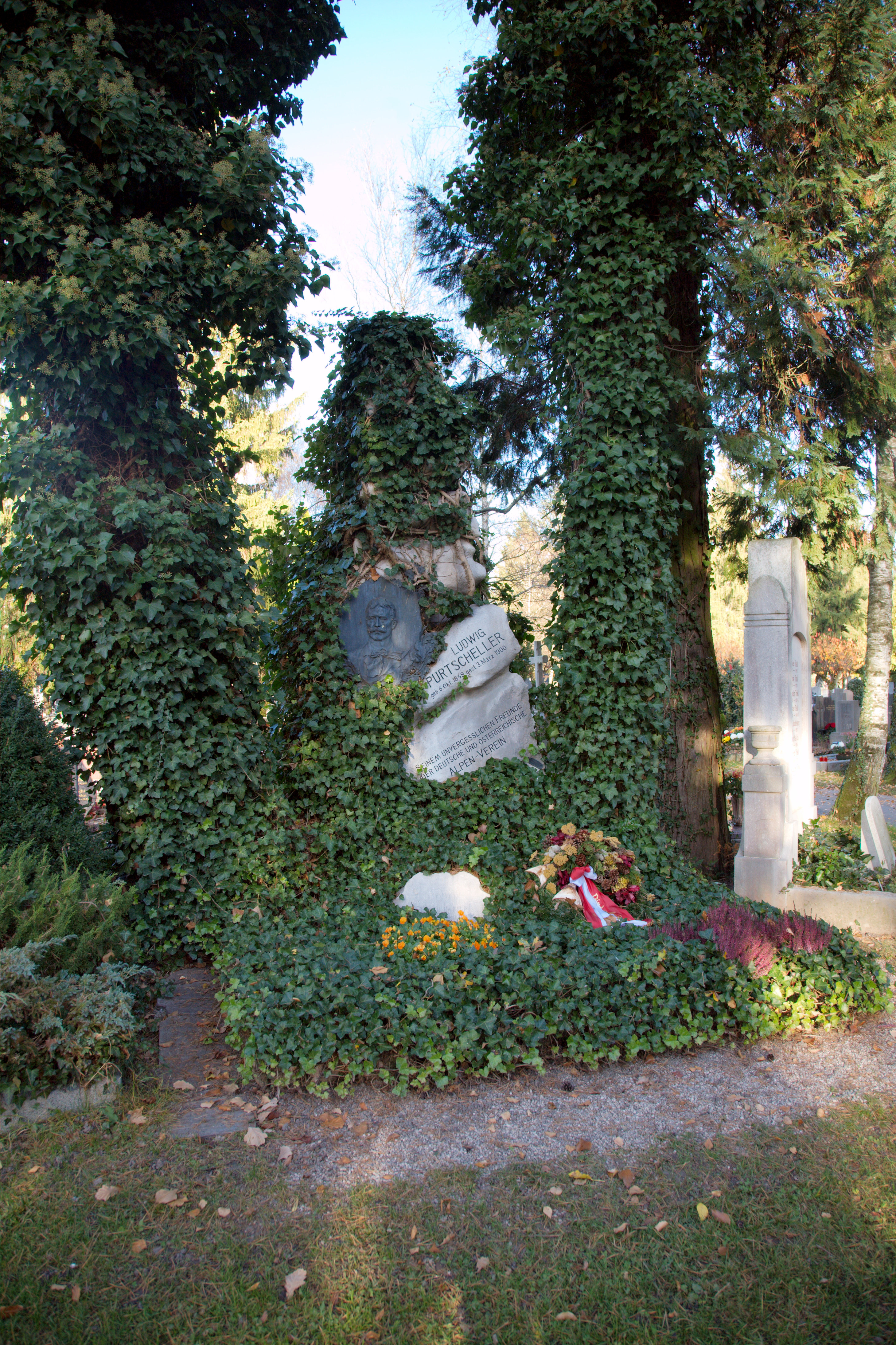 Tombstone of Ludwig Purtscheller ins Salzburg